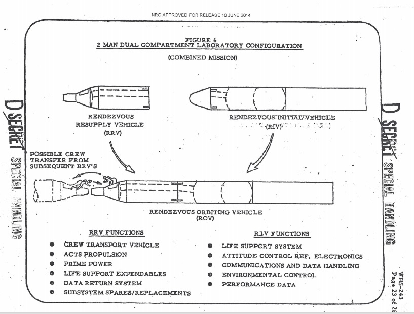 Image of KH-10/DORIAN (aka Manned Orbiting Laboratory)